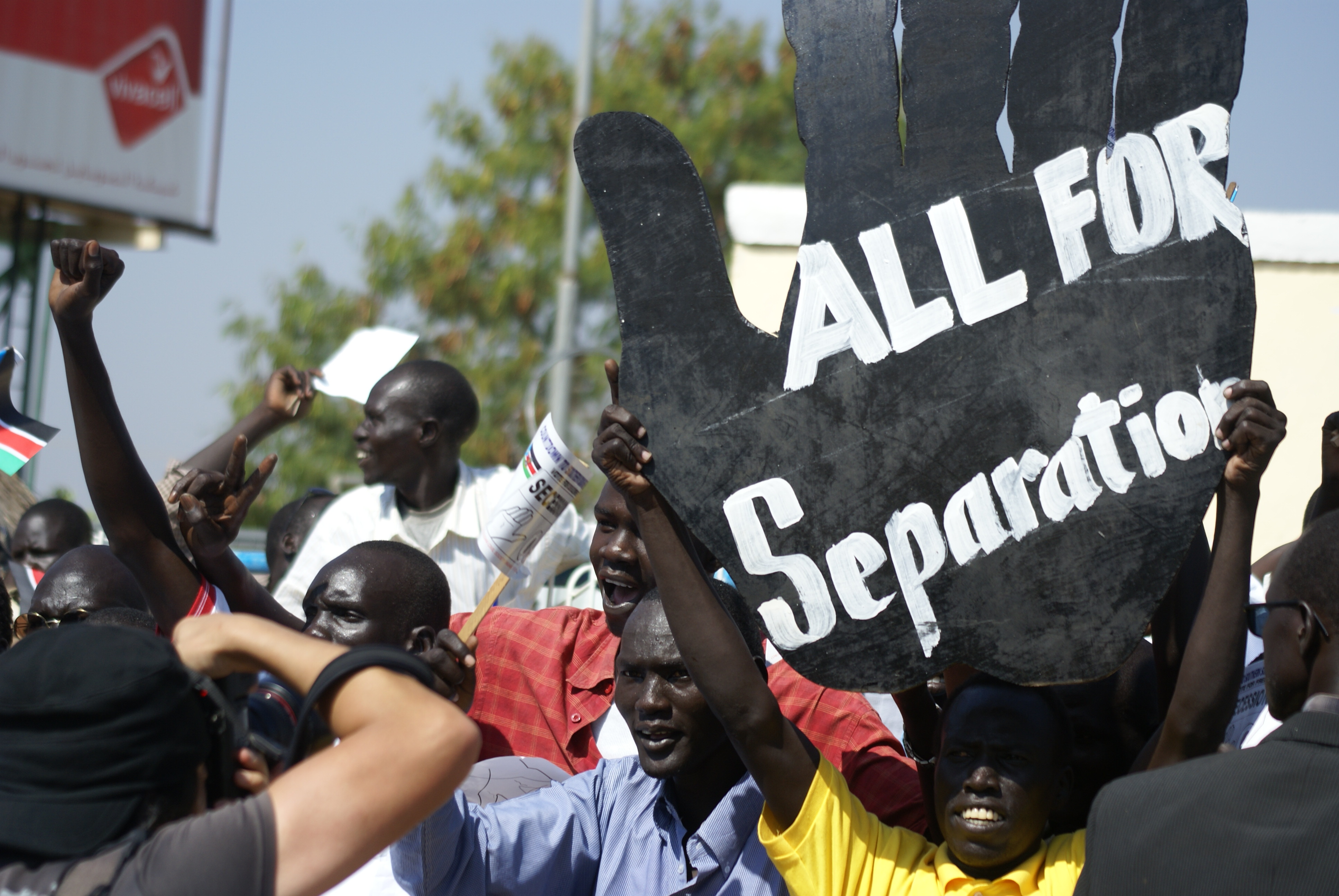 Many in south Sudan look forward to a split from the north. Bashir said he was committed to unity as an option.